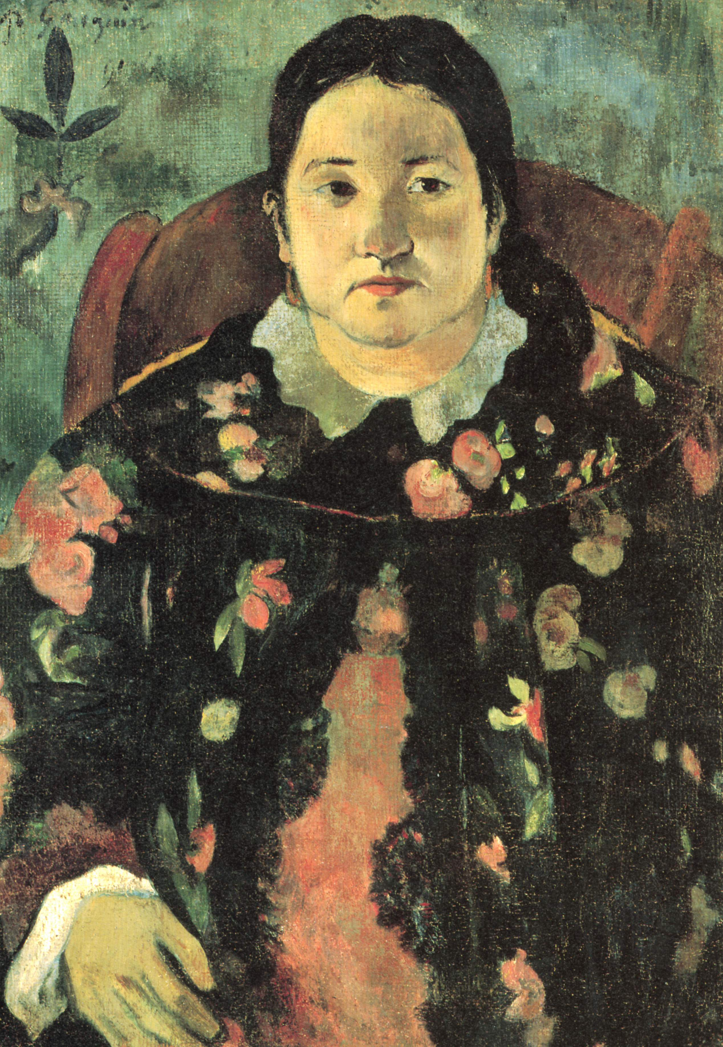 Depicted person: Suzanne Bambridge